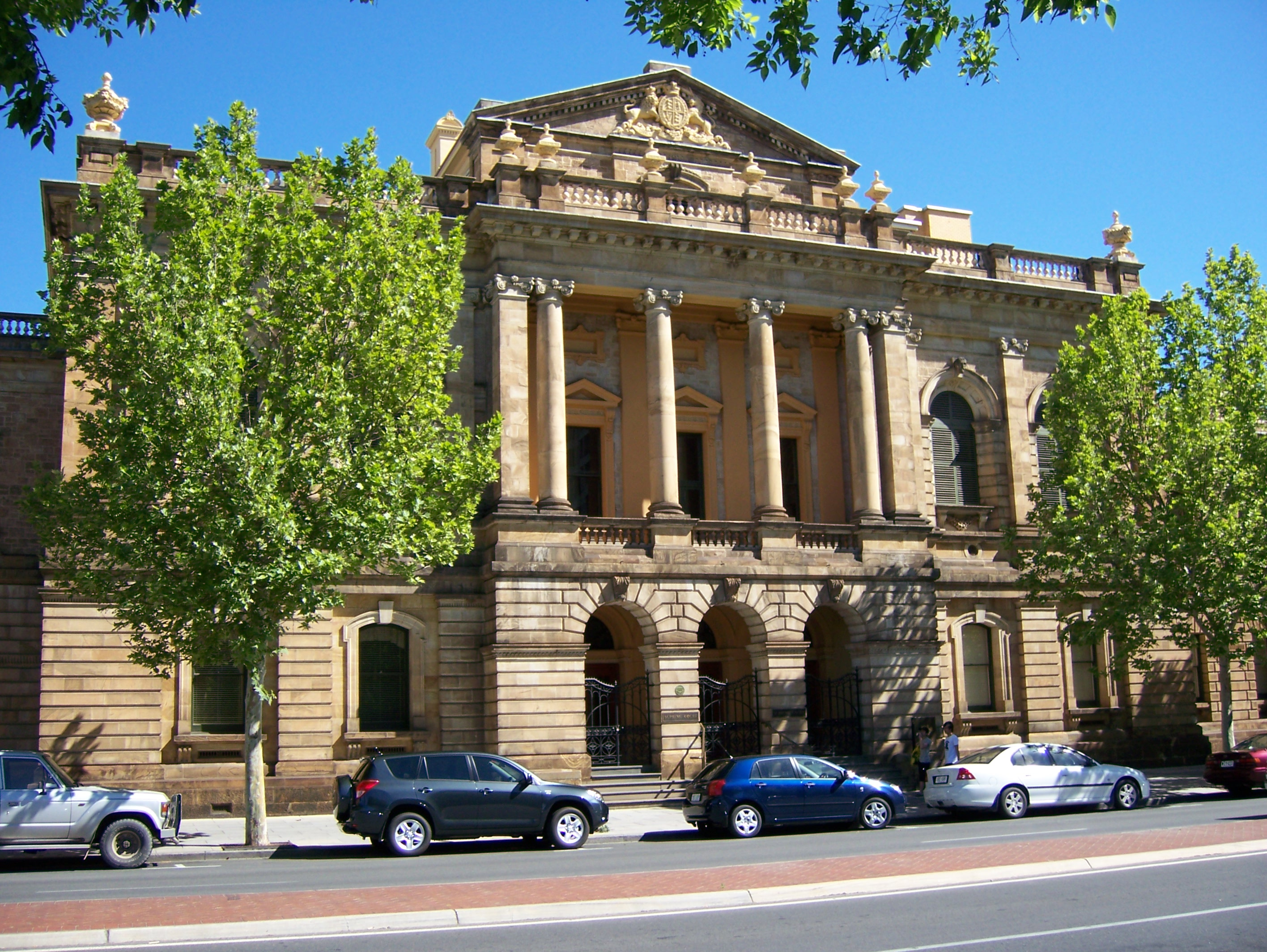 Supreme Court of South Australia from Victoria Square.